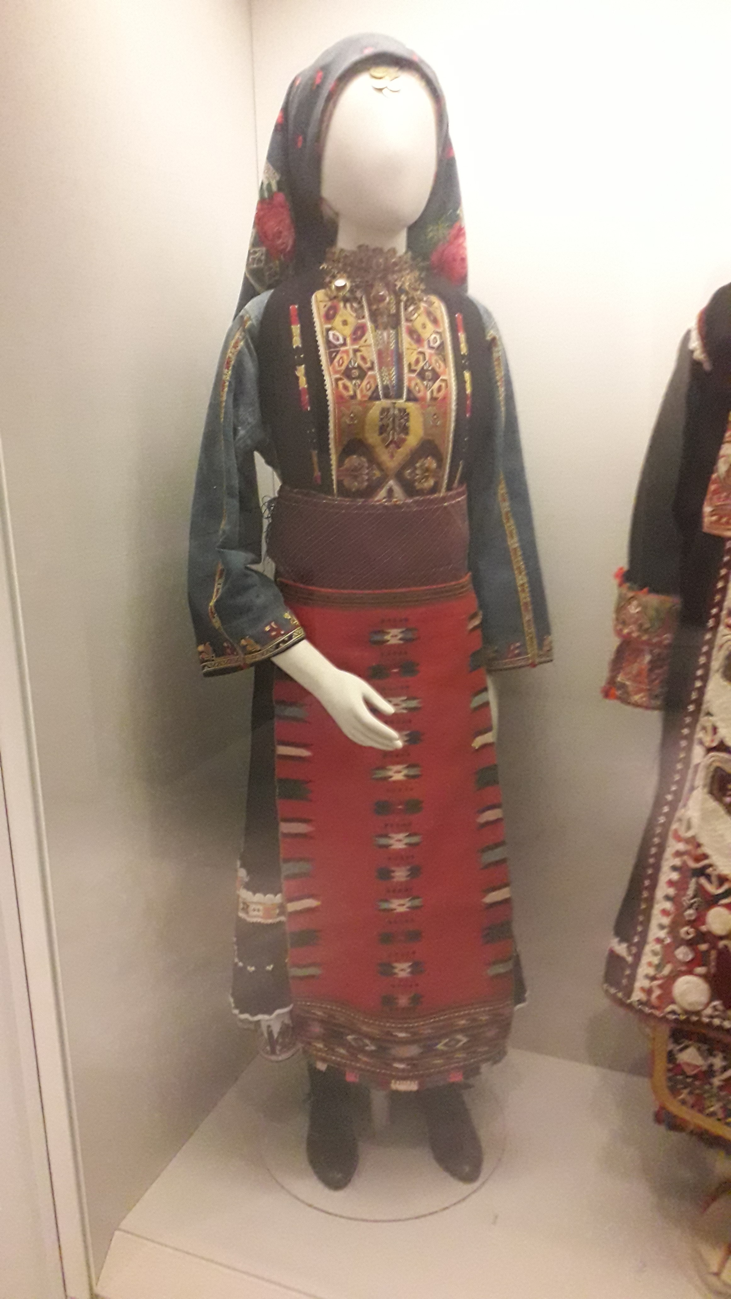 Bulgarian costume from Kavakli